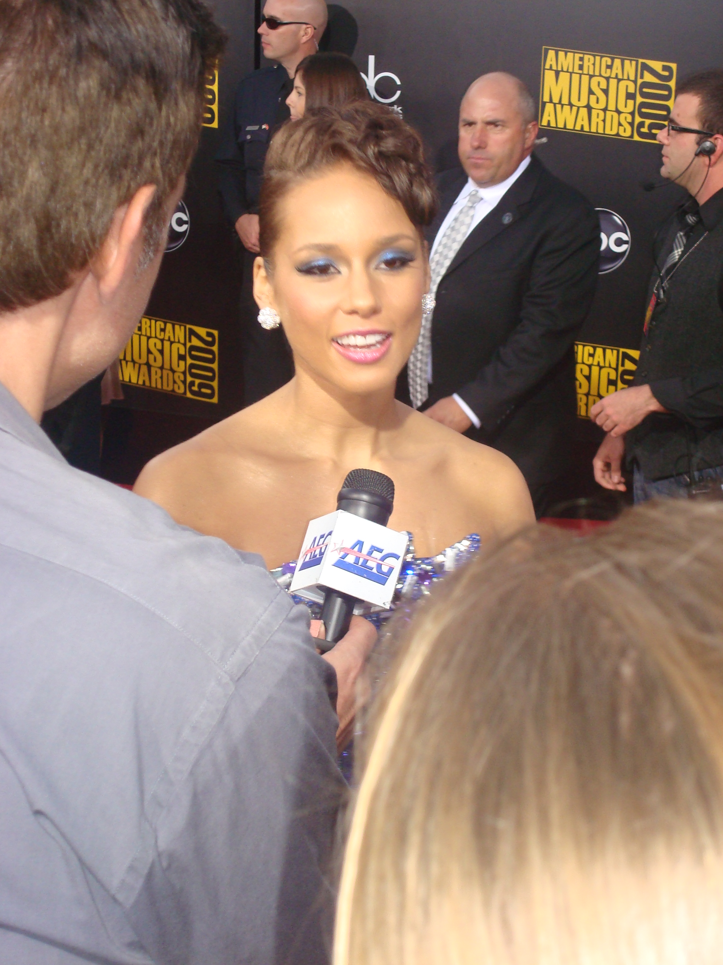 Alicia Keys at the 2009 American Music Awards Red Carpet